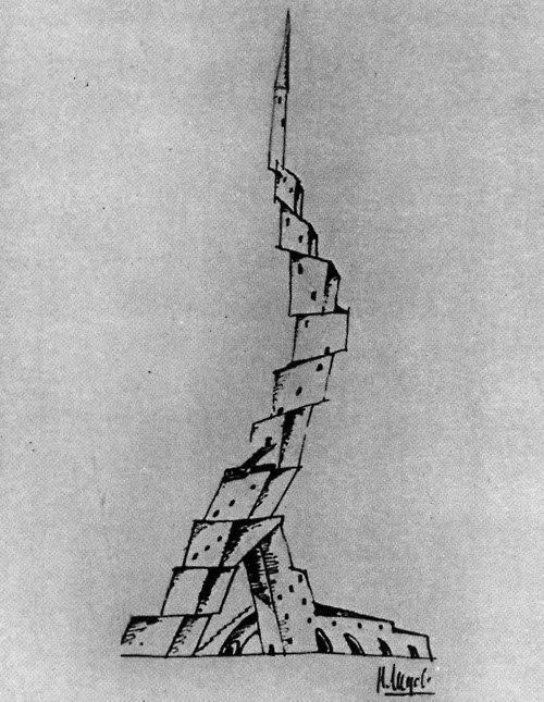 Architectural composition